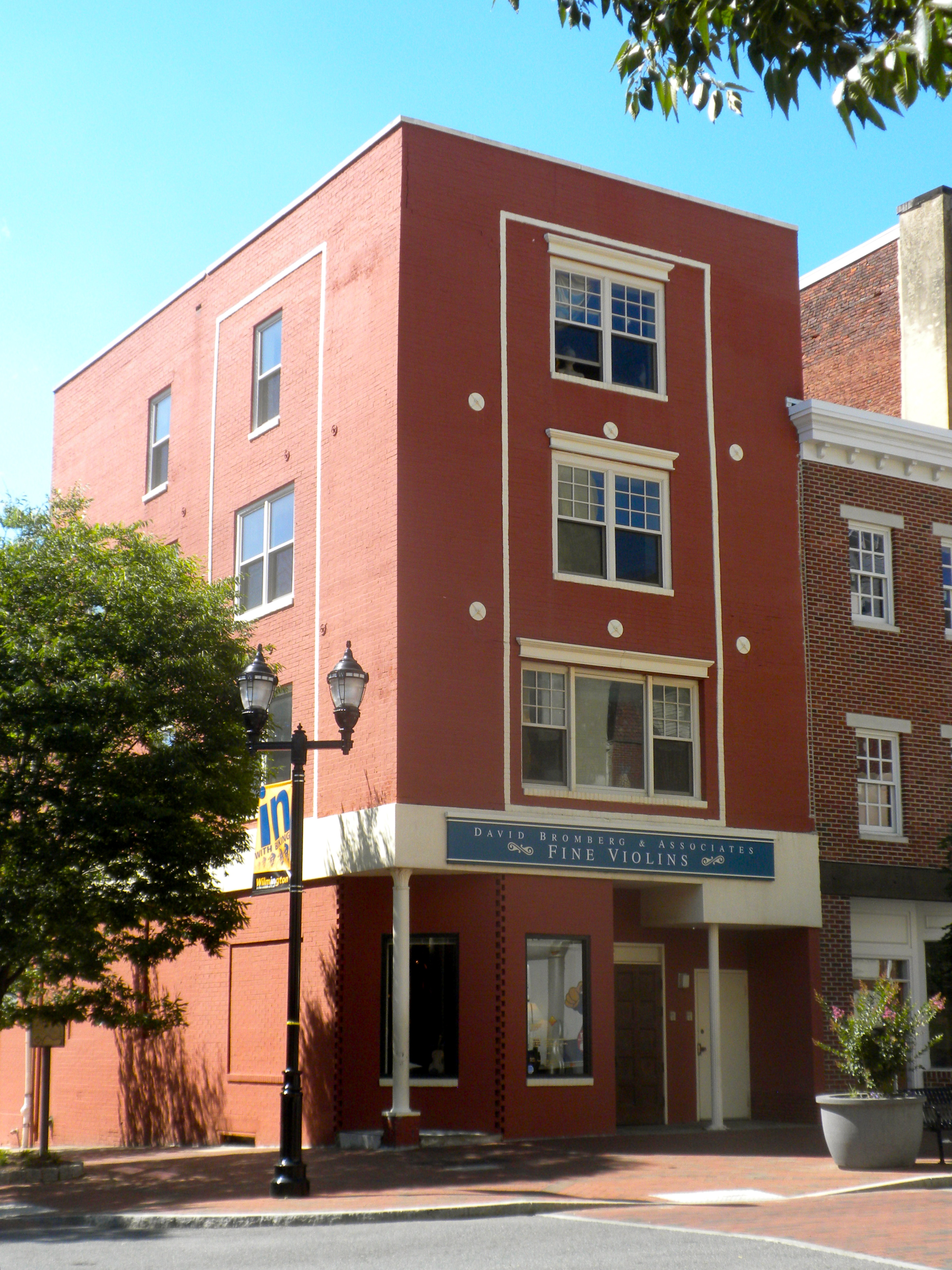 Store for David Bromberg and Associates Violins at 601 N. Market Street in Wilmington, Delaware. Bromberg was a well known Folk/Rock/Country "star" in the 1970s-1990s, now collects, sells, repairs stringed instruments